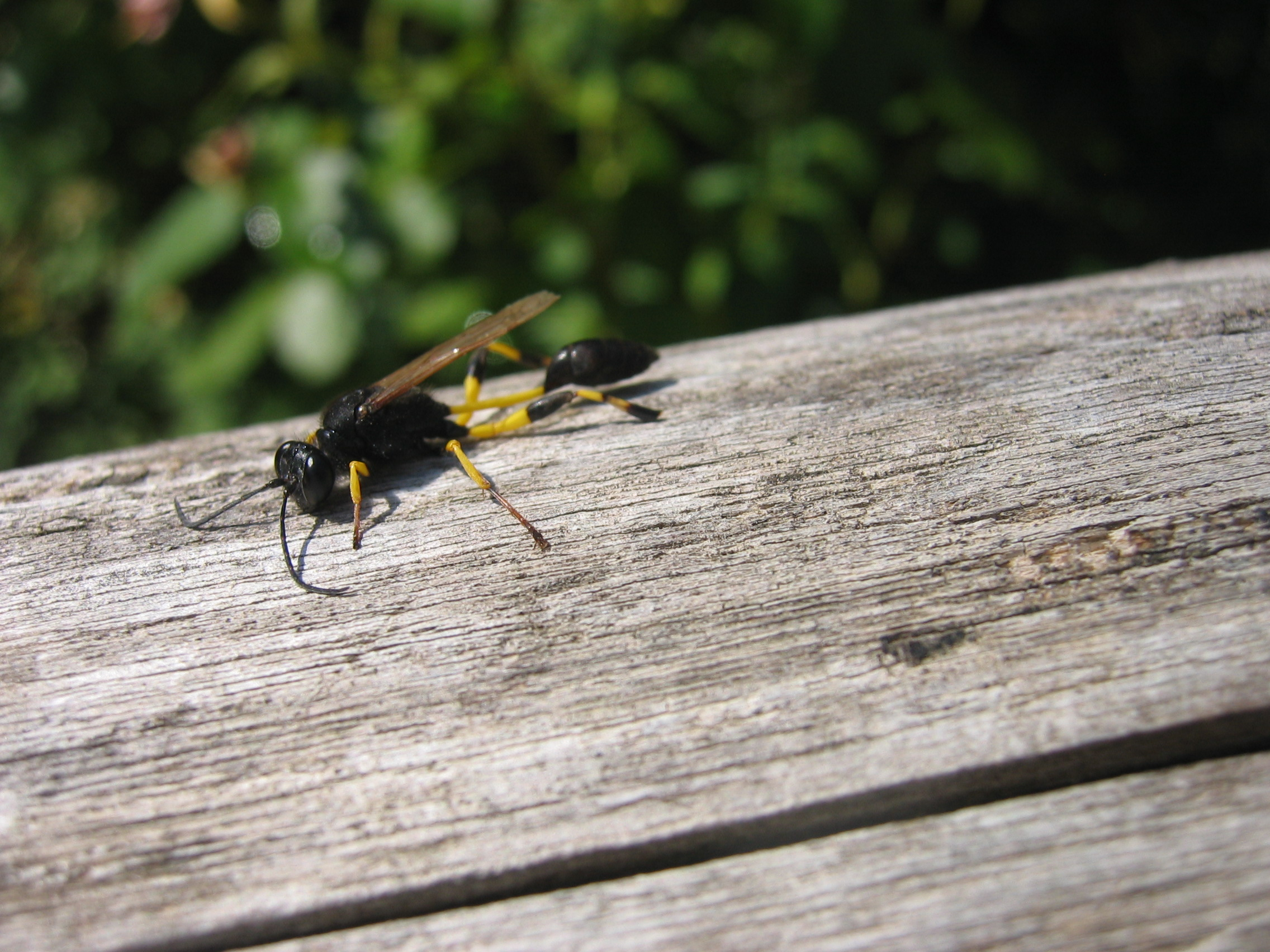 Wasp on wood in Tuscany Sceliphron spirifex